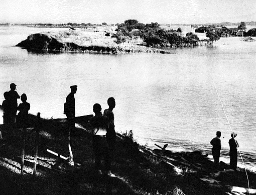 1947 Typhoon Kathleen damage at Kurihashi